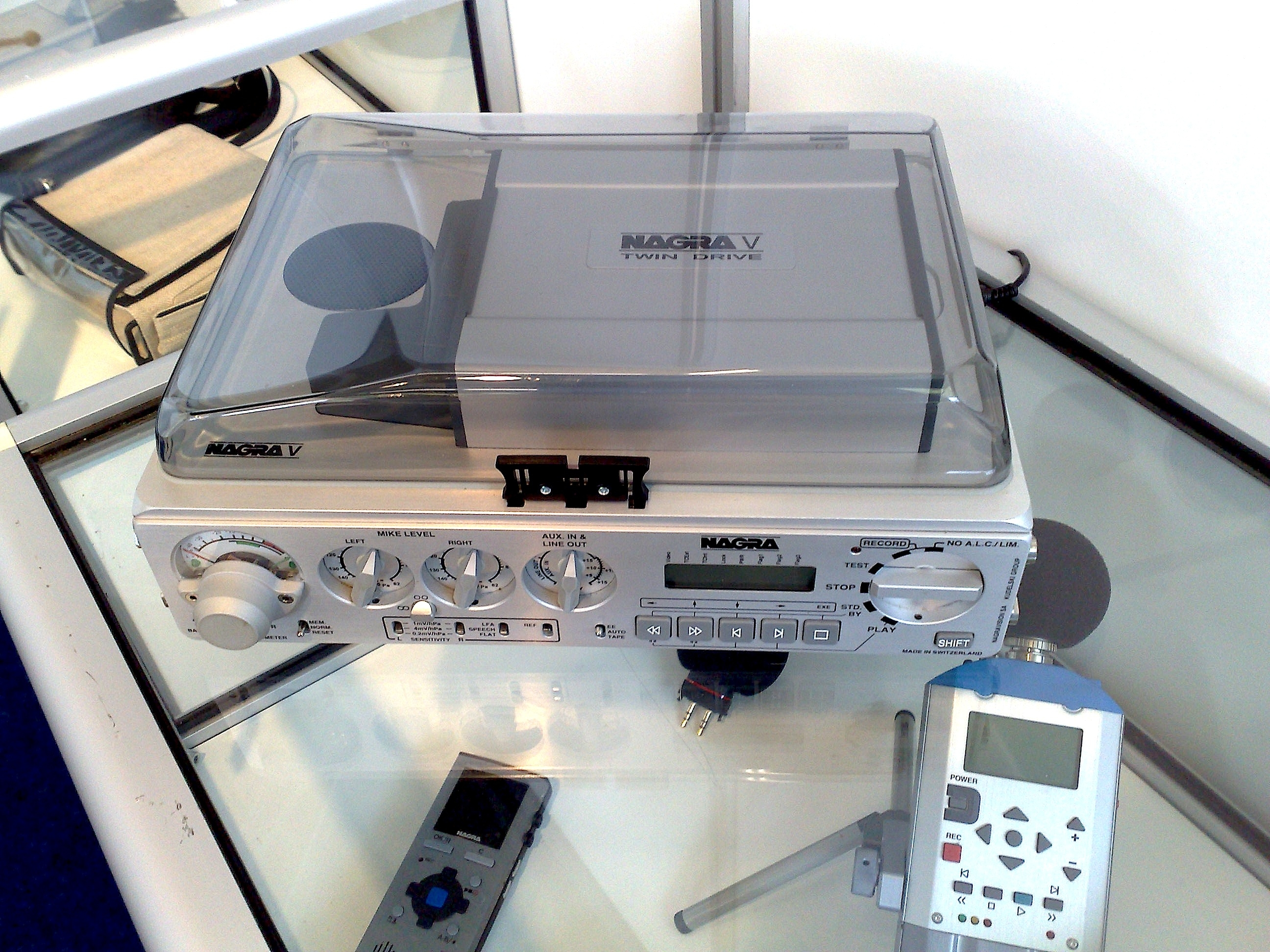 NAGRA V - 2ch Digital Audio Recorder using removable Hard Disk drive or CF Storage Now all harddrive based. That's also probably the weakest in such a machine